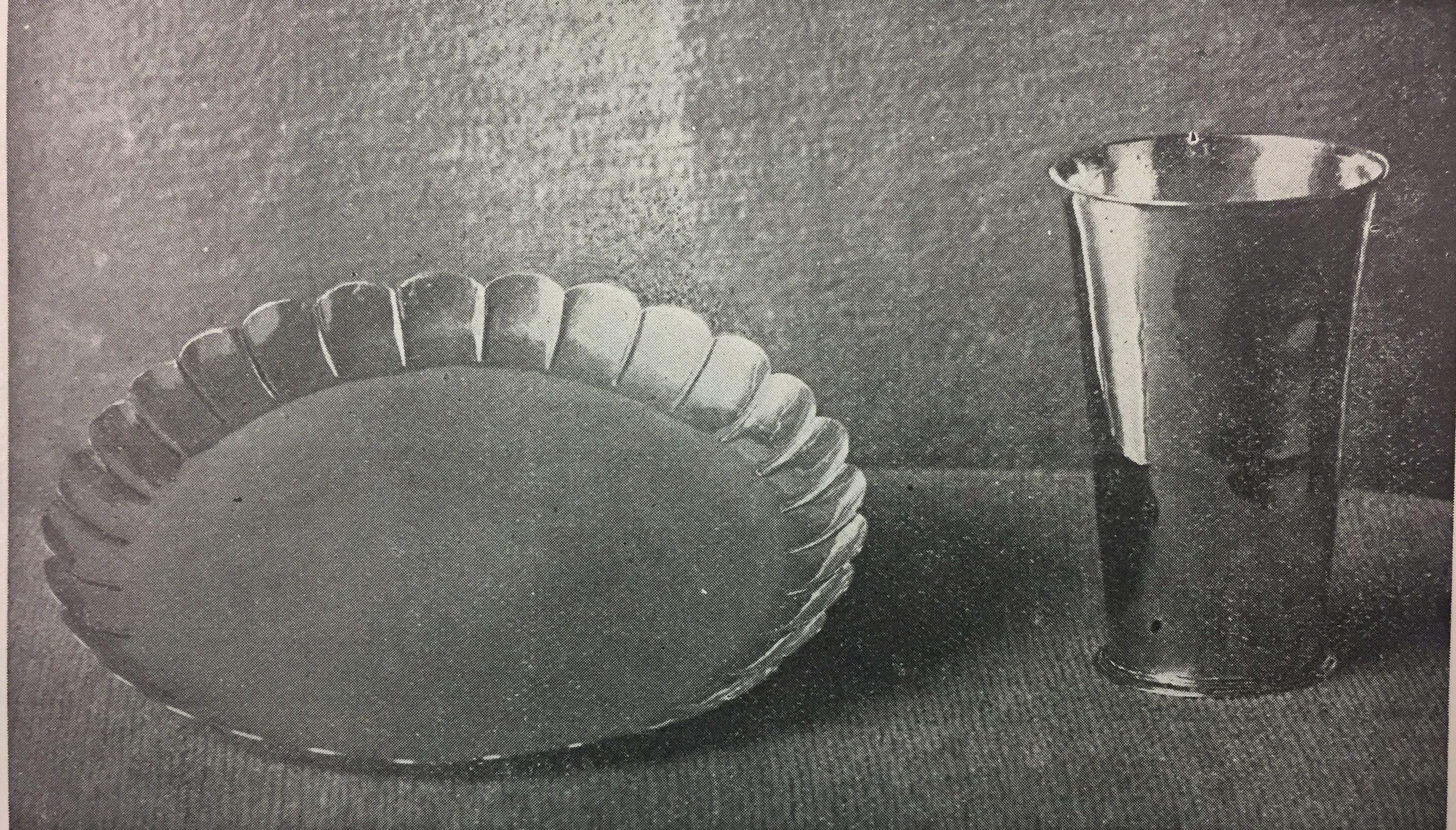 King's College Chapel Silver Chalice and Palet, Halifax, Nova Scotia. Formerly, given by Rev. Roger Aitkins to the St. Peter's Church, West LaHave, Nova Scotia, Canada (1818)